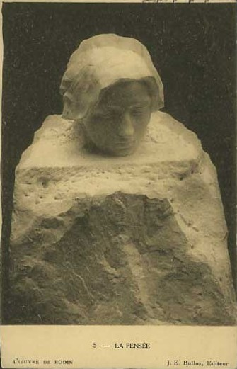 A personification of thought. The model was sculptor and graphic artist Camille Claudel, Rodin's student and lover.